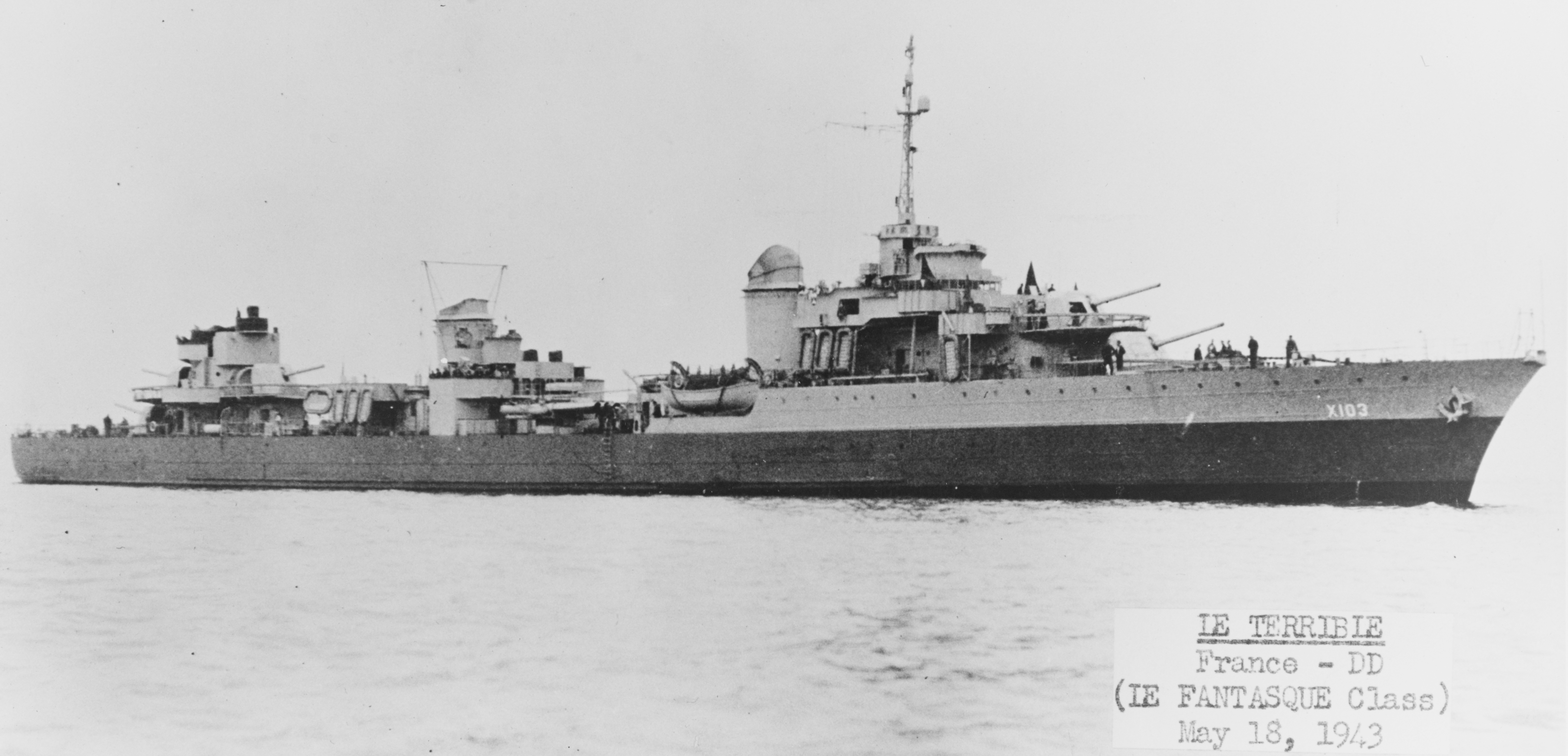 The French contre-torpilleur Le Terrible after her modernization in the Boston Navy Yard